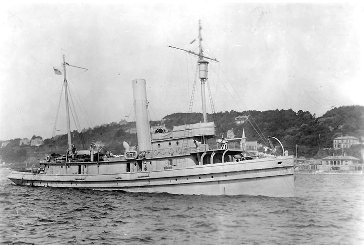 USS Genesee (SP-1116, later AT-55) At Queenstown (Cobh), Ireland, in 1918. Photographed by Zimmer.